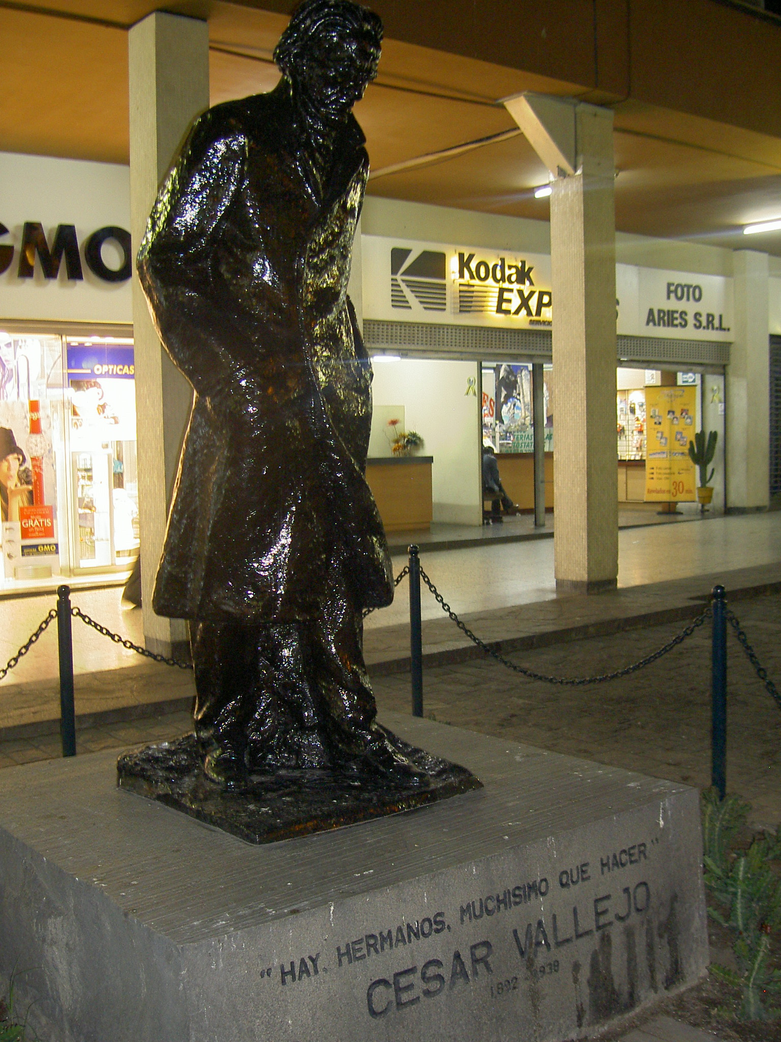 Monument to César Vallejo by Peruvian sculptor Miguel Baca Rossi; Lima, Peru.